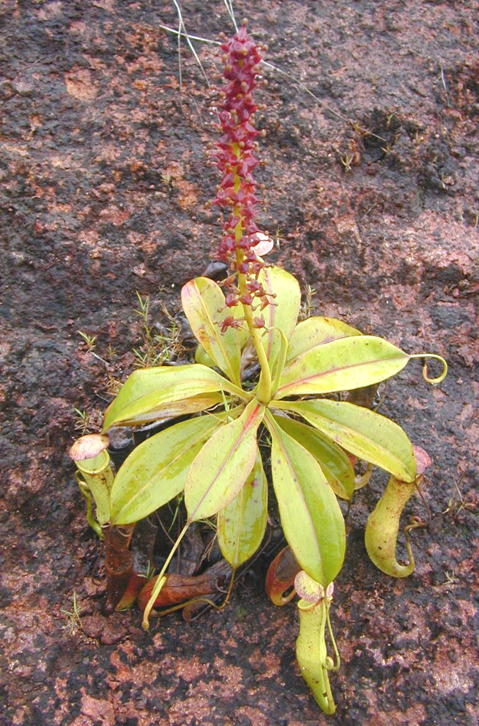 Photograph of a pitcher plant on a rock face in Palau. Taken and contributed to Wikipedia by Eric Guinther.